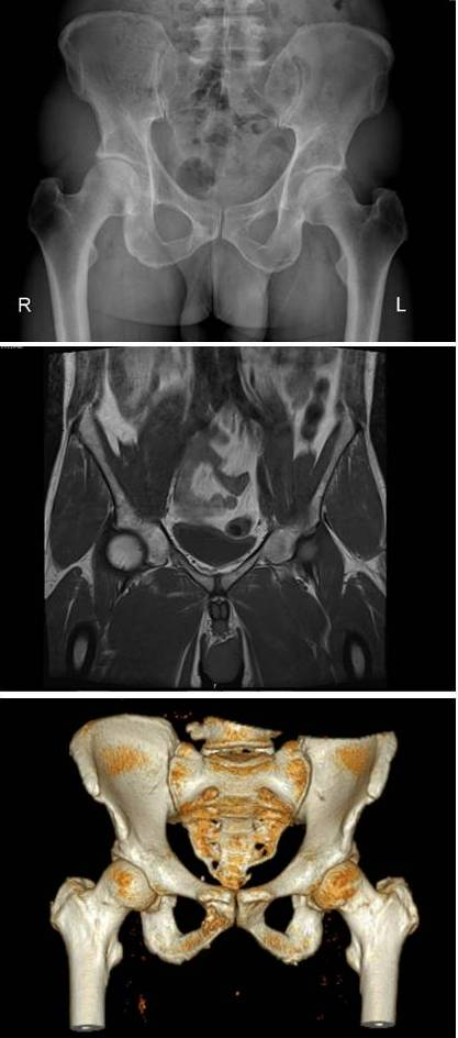 Image produced on Siemens radiology machine in Oslo, Norway. Image belongs to the uploader, no artistic property rights.